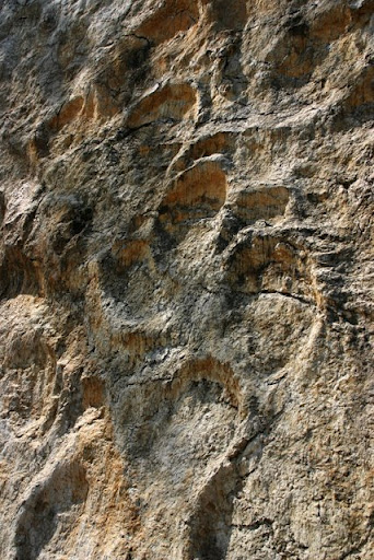 Sauropod footprints, late Jurassic - 130 million years at Coisia (Jura), France